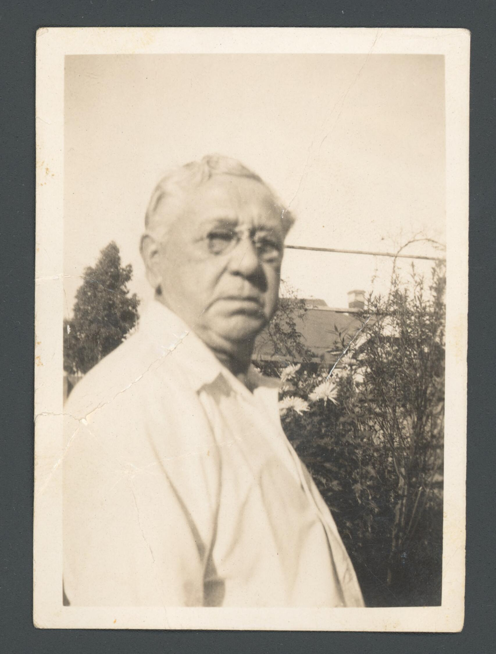 Australian politician Frank Anstey nine months before his death